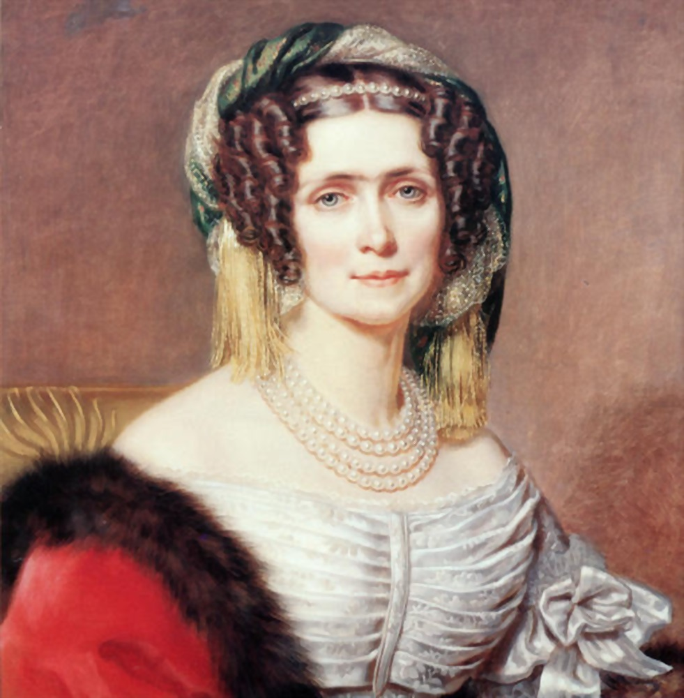 Karoline von Baden - Königin von Bayern